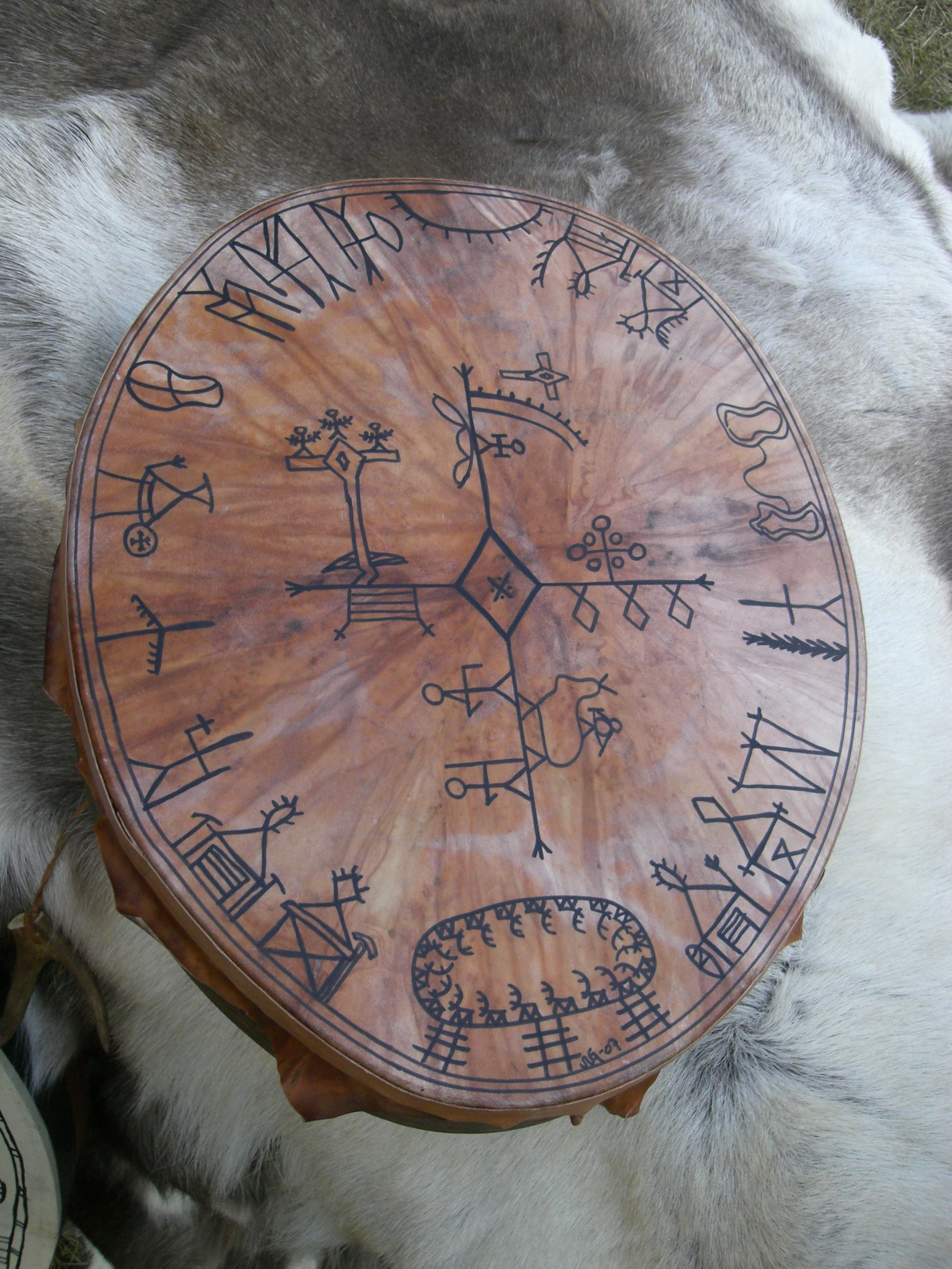 Turist form of typical Sami drum which is not exactly right with symbols.